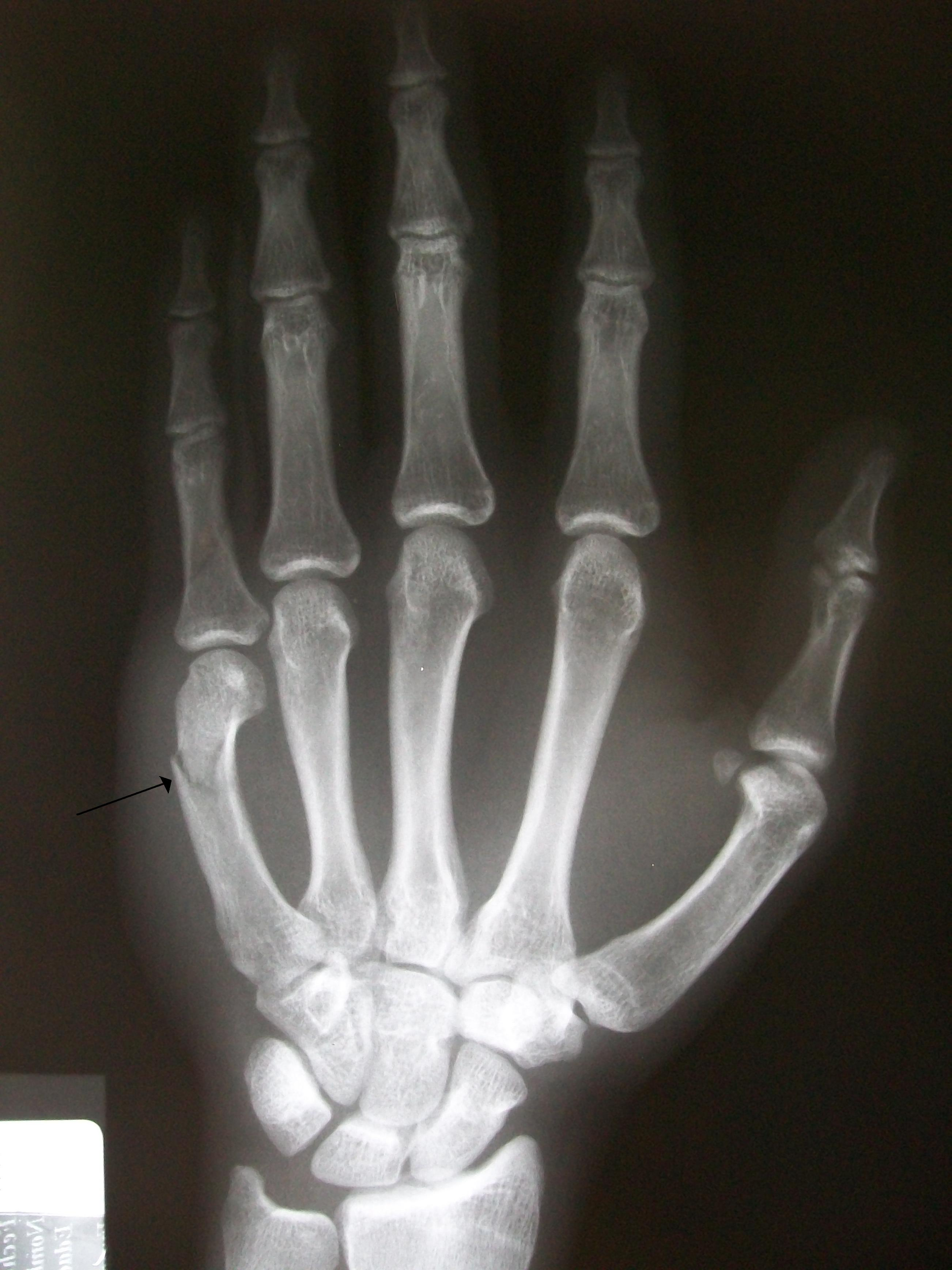 PA left hand x-ray showing fracture at the neck of Fifth metacarpal bone, commonly refered to as Boxer's fracture. Maracay, Venezuela; same patient as File:Boxers fracture-lateral xray.JPG.